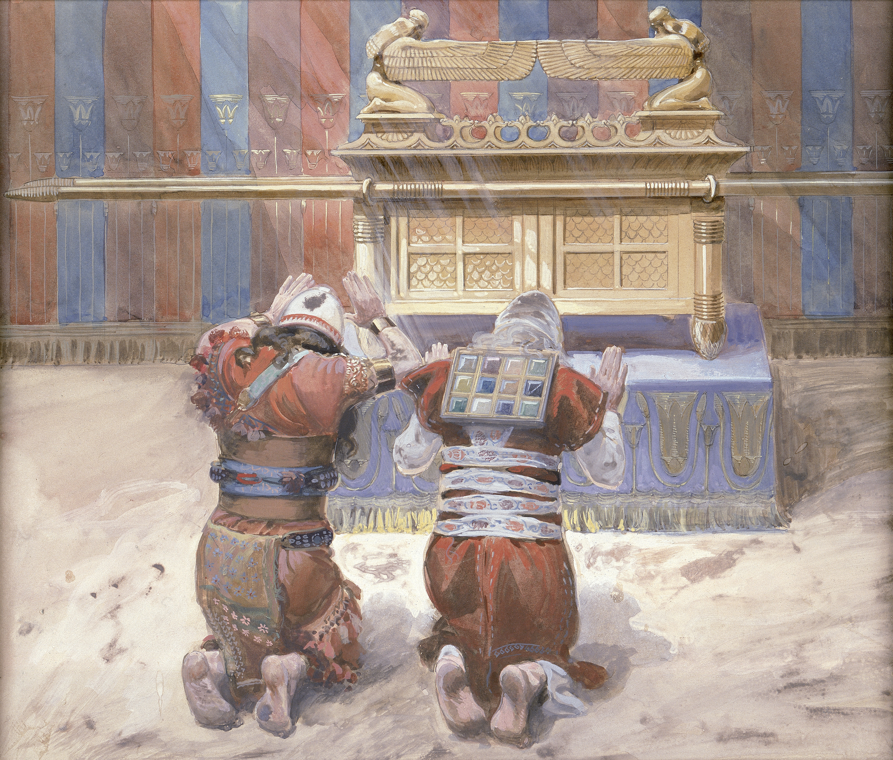 Moses and Joshua in the Tabernacle, c. 1896-1902, by James Jacques Joseph Tissot (French, 1836-1902) or follower, gouache on board, 7 3/8 x 8 13/16 in. (18.7 x 22.5 cm), at the Jewish Museum, New York